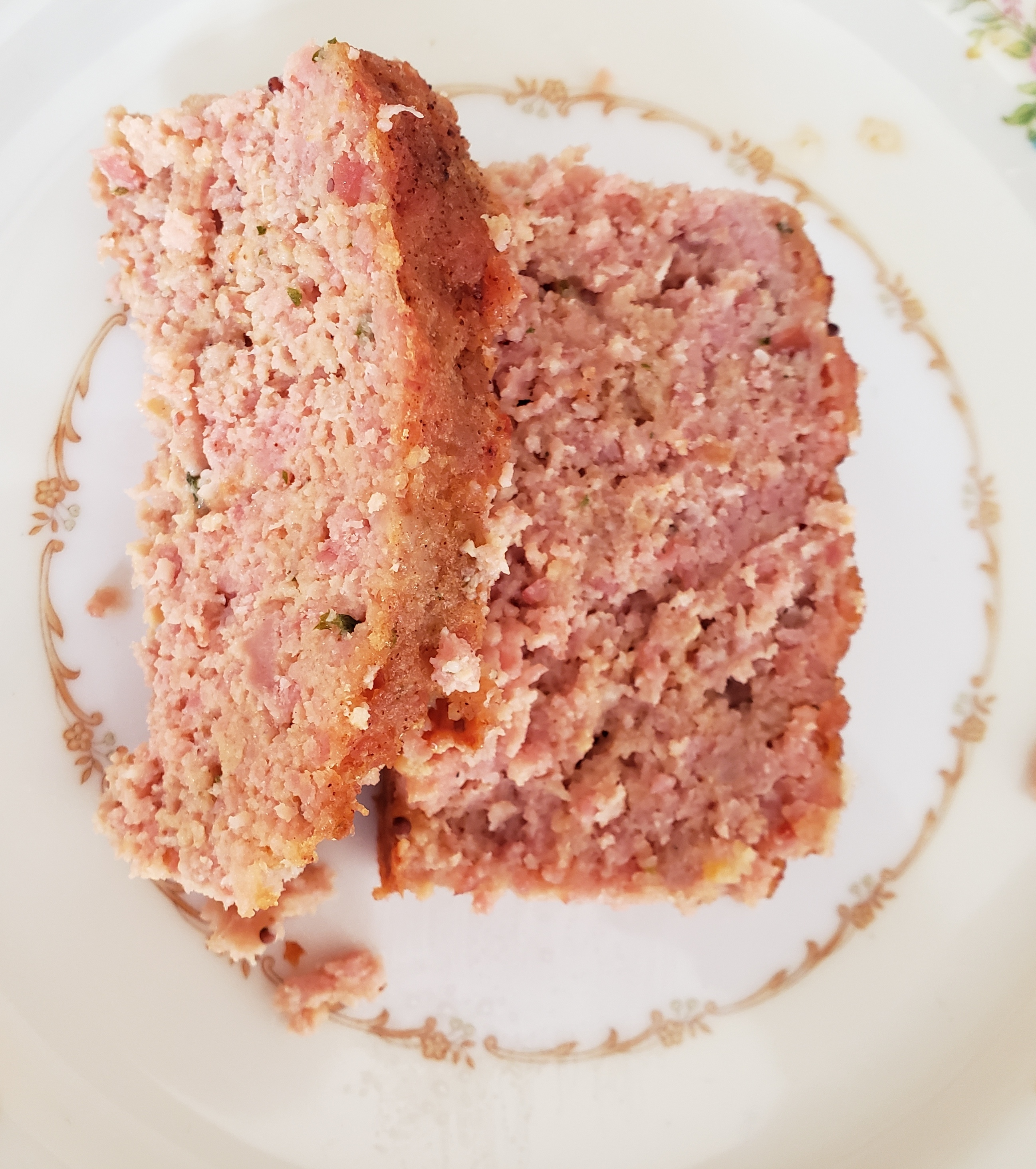 Two slices of homemade hamloaf served on a plate.